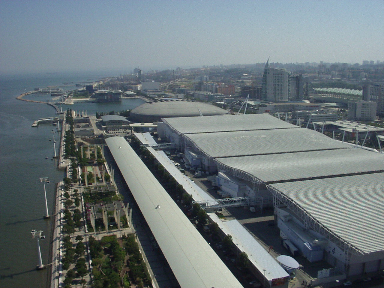 Parque das Nações (Nations Park) and westbound Lisbon seen from Torre Vasco da Gama